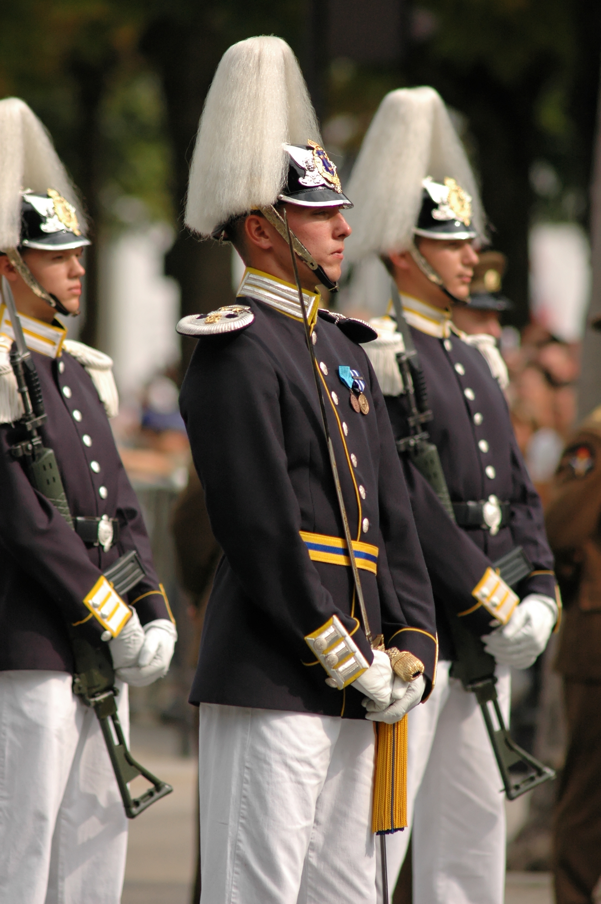 Men from The Guards Battalion of the Swedish Life Guards during the Bastille Day 2007 military parade on the Champs-Élysées.